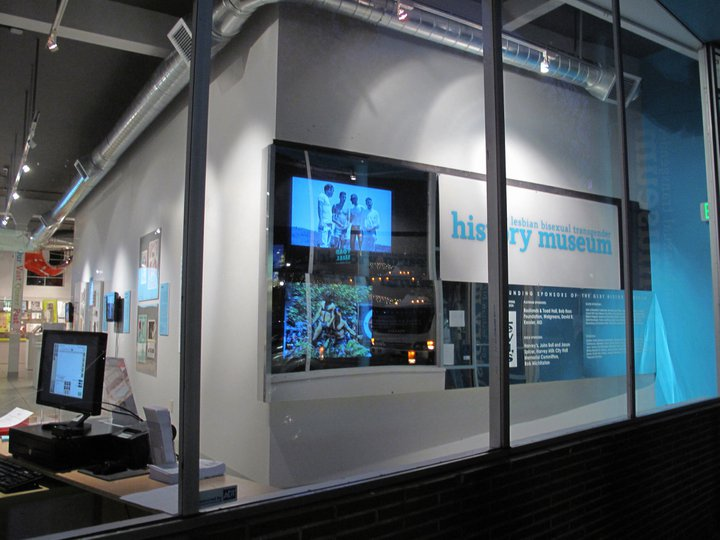 The GLBT History Museum at 4127 18th St. in San Francisco seen from the sidewalk on the night it opened for previews, Dec. 12, 2010.